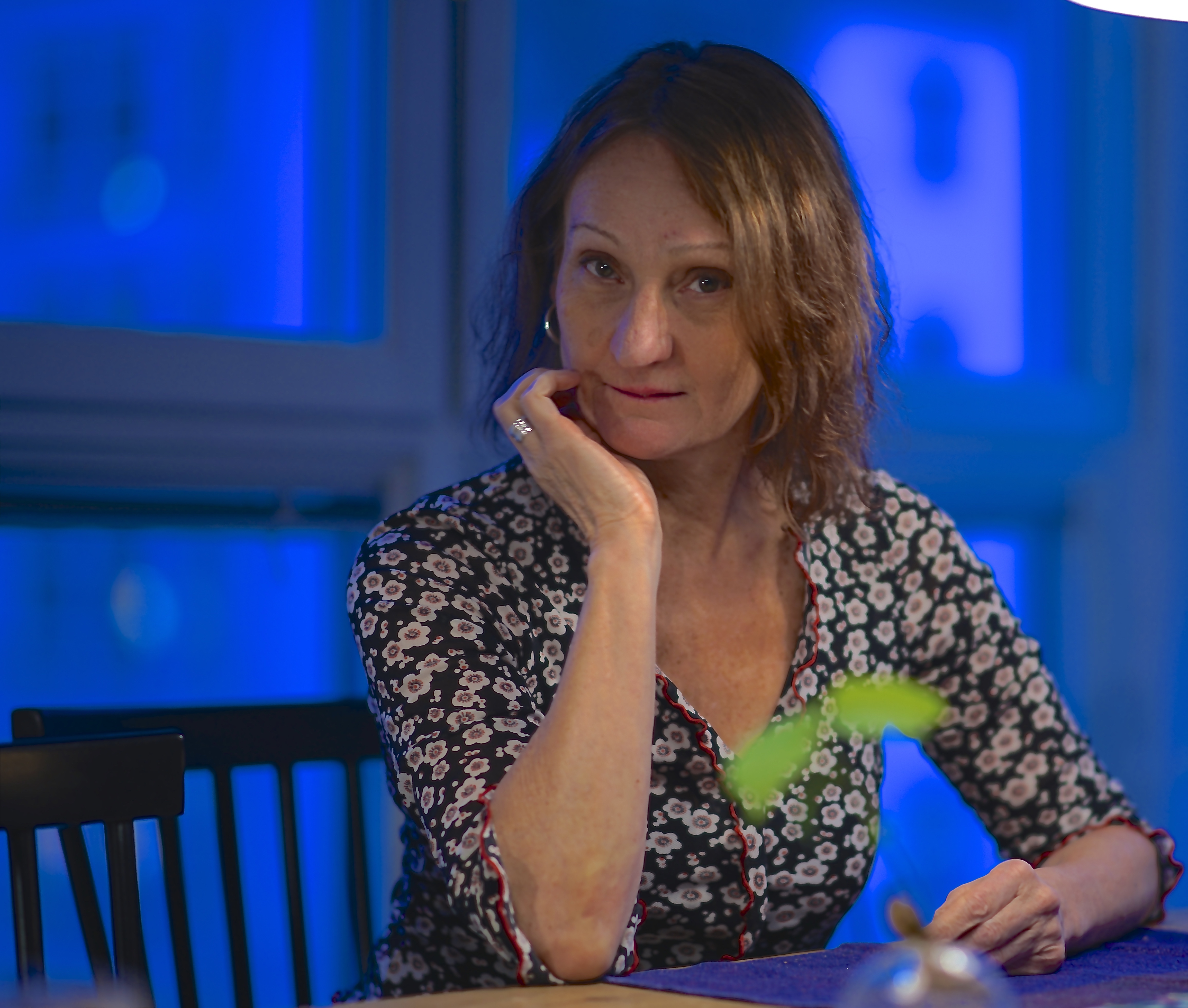 Portrait of Marie Samuelsson